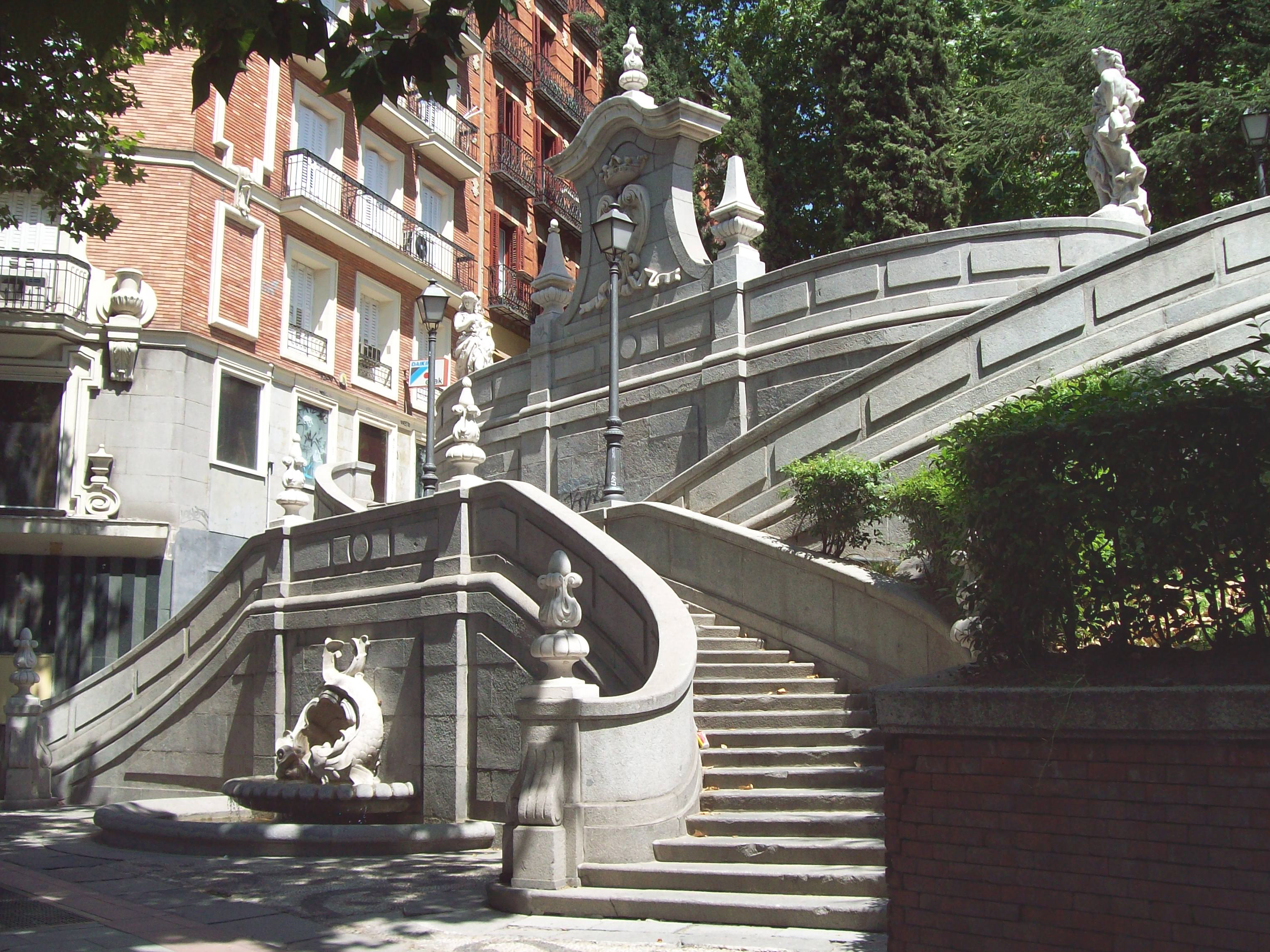 Monument to Jaume Ferran in Madrid (Spain).